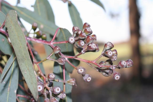 Fruit of Eucalyptus crebra photographed in Gilgandra, New South Wales